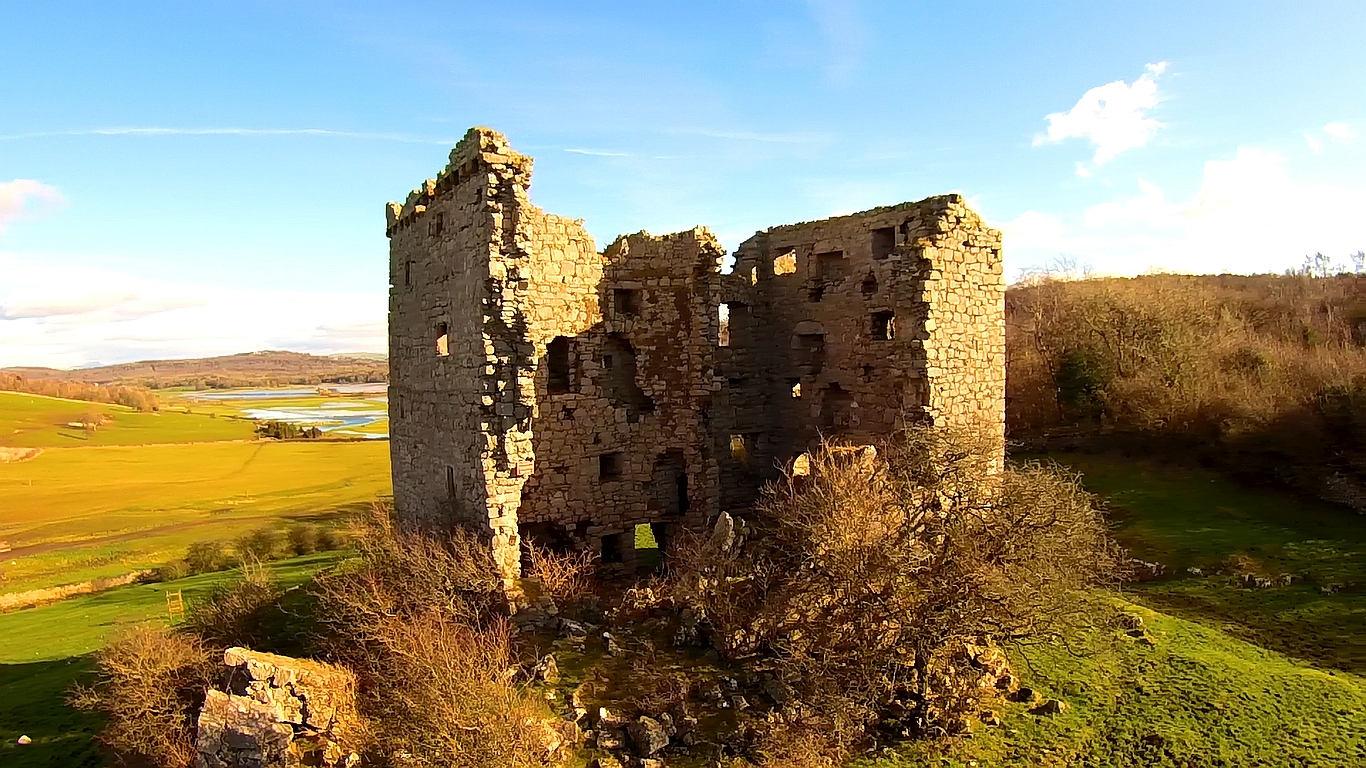 View of Arnside Tower from the side of the public footpath, showing the collapsed wall & part of the internal structure of the tower. Silverdale Moss can be seen in the background left. Seen from the west - Feb 2016.